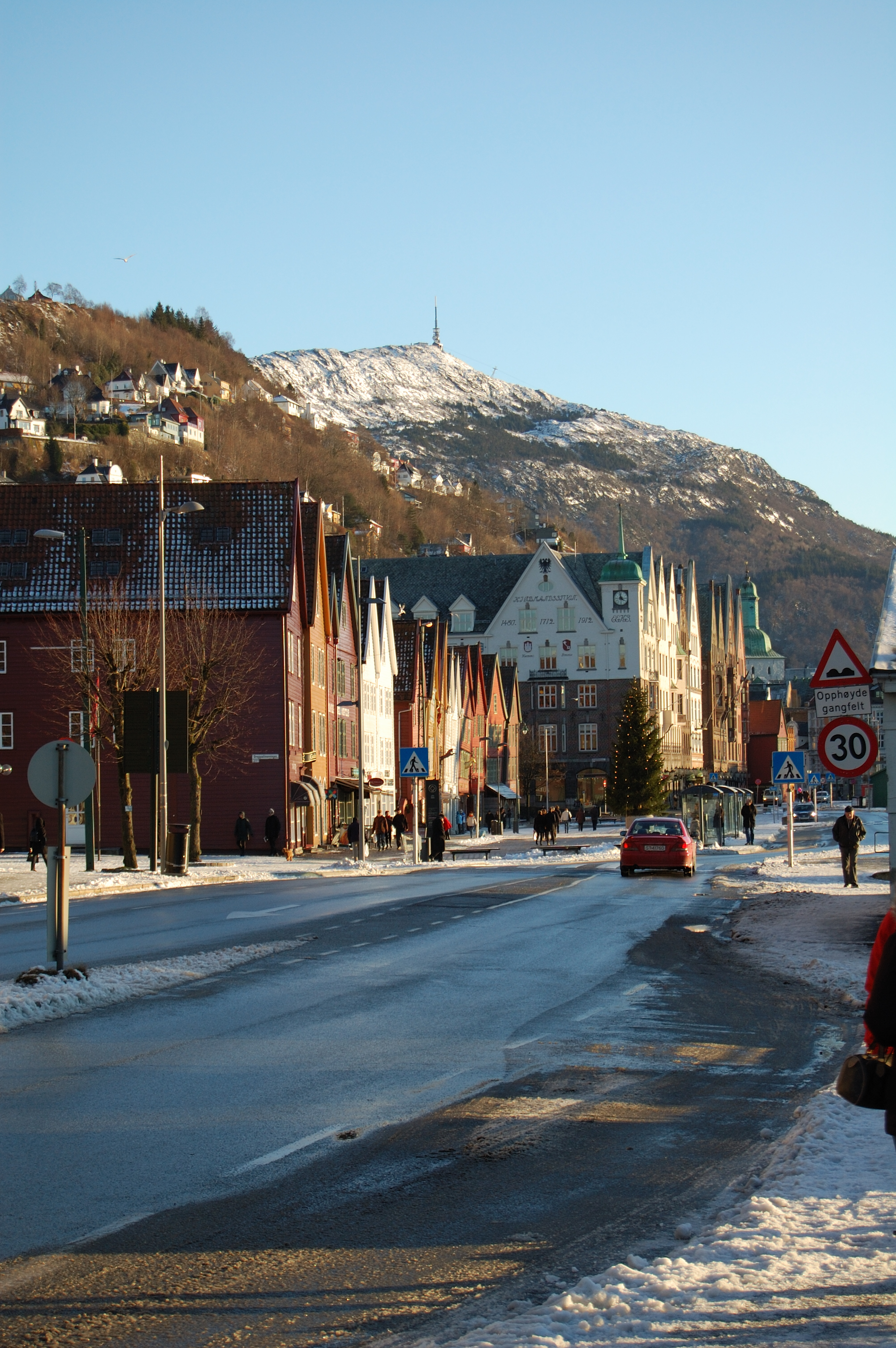 Bryggen in Bergen, Norway. Mount Ulriken in the background.